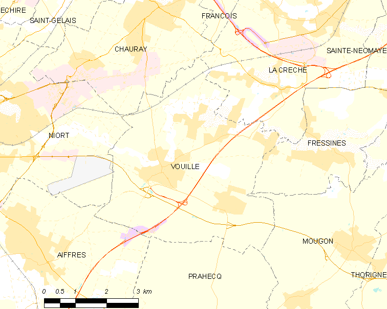 Map of French municipality Vouillé